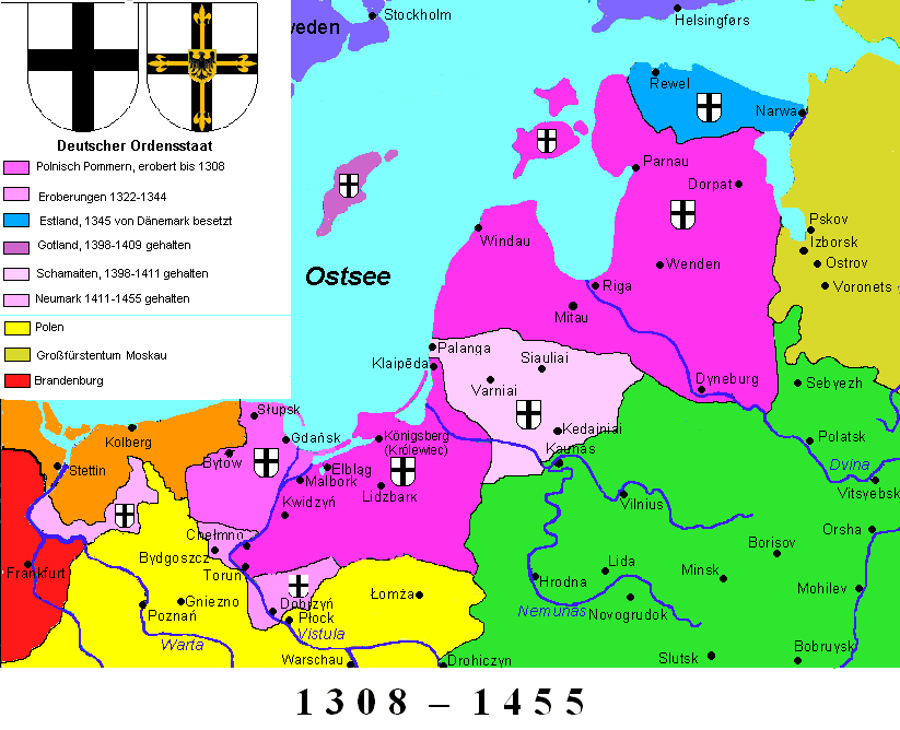 German Version of history map of Ordensstaat, 1455